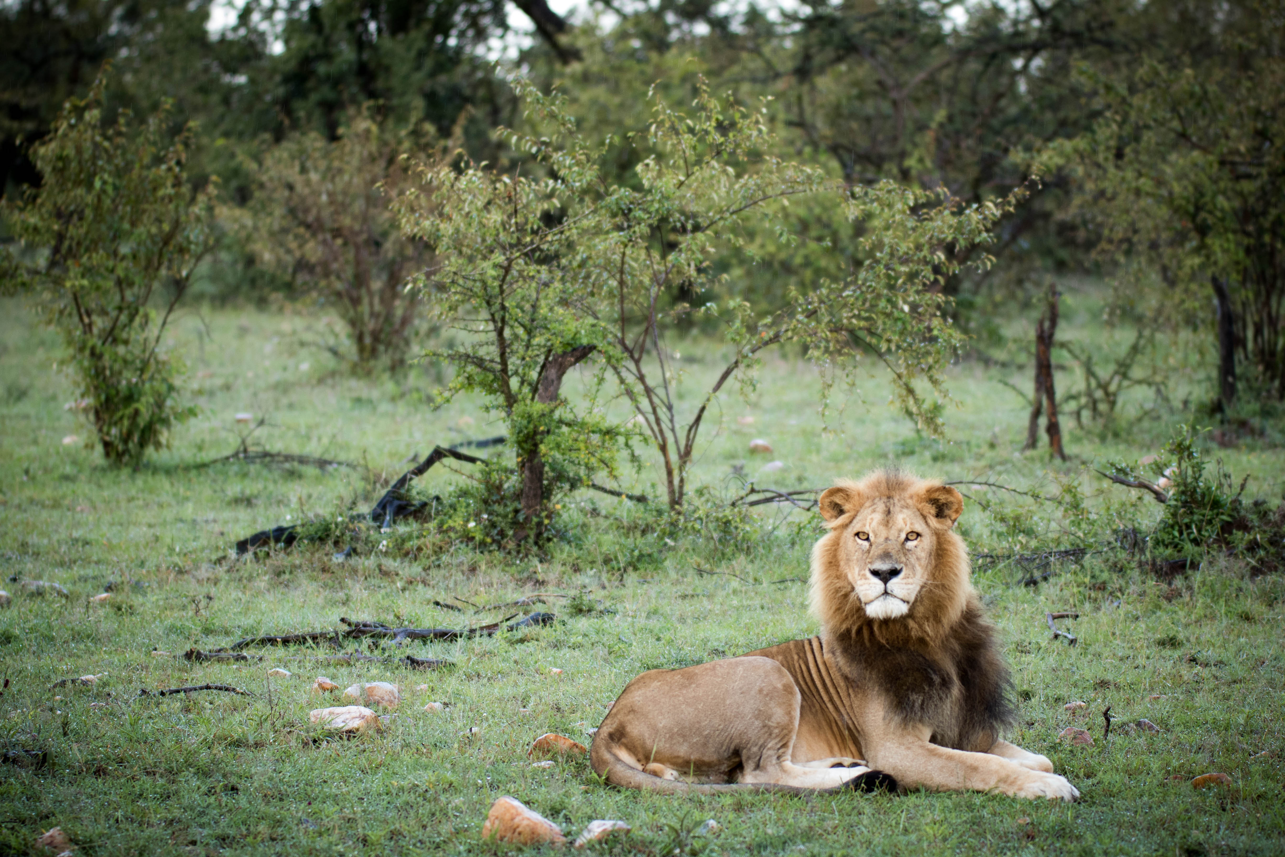 KENYA, Ol Kinyei, Maasai Mara: In a photograph taken by the Ministry of East African Affairs, Commerce and Tourism (MEAACT) 13 June 2015, a male lion looks out across the savannah inside the Ol Kinyei Conservancy in Kenya's Maasai Mara. The management of Ol Kinyei and similar conservancies bordering the Maasai Mara National Reserve and in other areas of Kenya is an alternative approach to wildlife conservation. The land on which the conservancies are located is leased from local communities who directly benefit from its use to naturally host and protect wildlife populations. The privately owned and managed conservancies also offer employment to members of these communities and further opportunity of training in different areas of expertise from guides and trackers to chefs and camp management. Strict regulation of visitor numbers and the construction of camps inside the conservancies also limit the amount of people and vehicles present at any given time, offering tourists a much more personal and exclusive wildlife safari experience while at the same time reducing stress on and the disturbance of wildlife populations, which quickly begin to return and repopulate areas and land transformed under the conservancy model. MANDATORY CREDIT: MEAACT PHOTO / STUART PRICE.